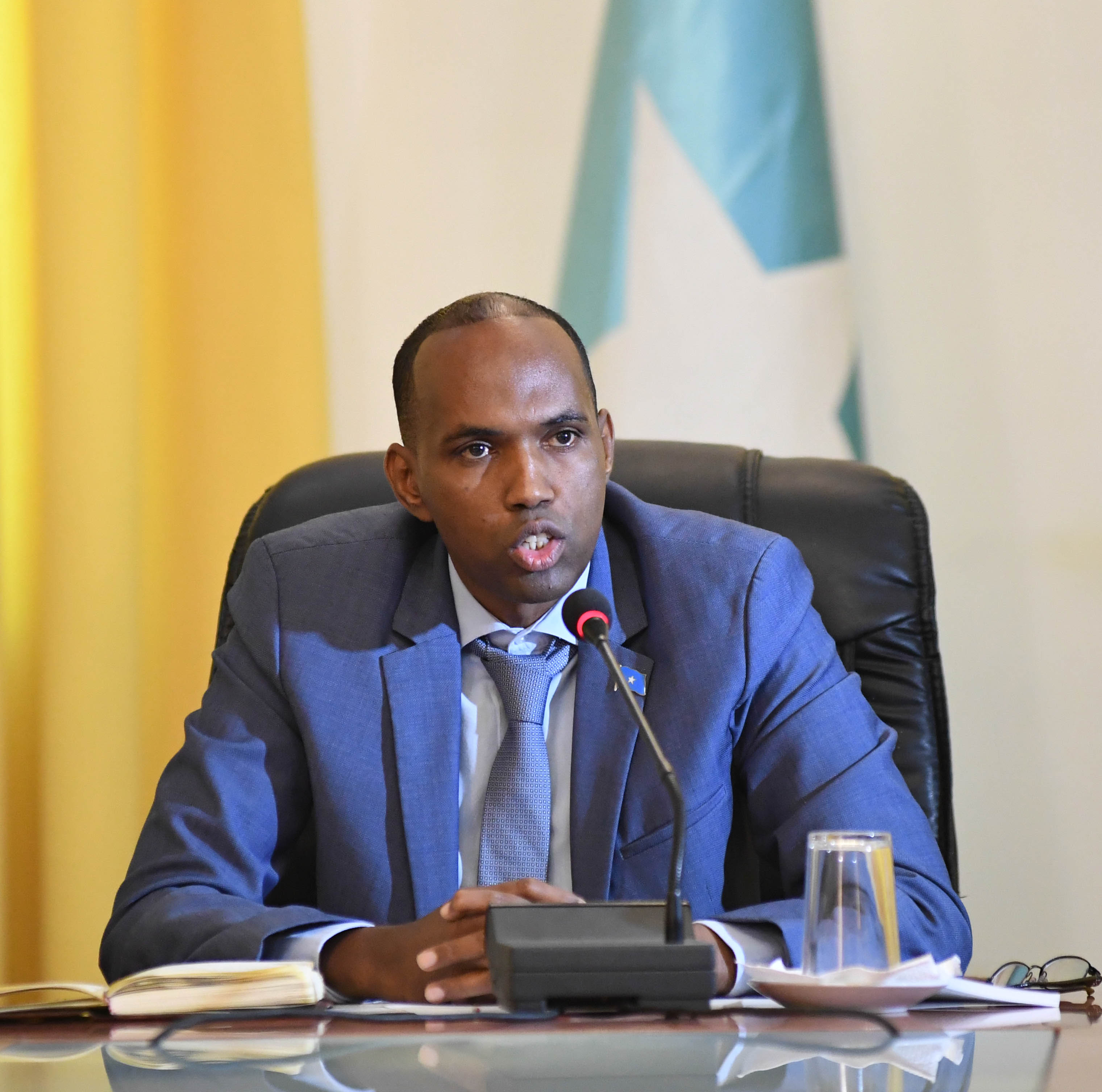 Somalia's Prime Minister, Hassan Ali Kheyre, speaks during a meeting with AU delegation led by the Chairperson of the African Union Peace and Security Council, Ambassador Ndumiso Ntshinga. The delegation is on a day working visit in Mogadishu, Somalia, on March 23, 2017.